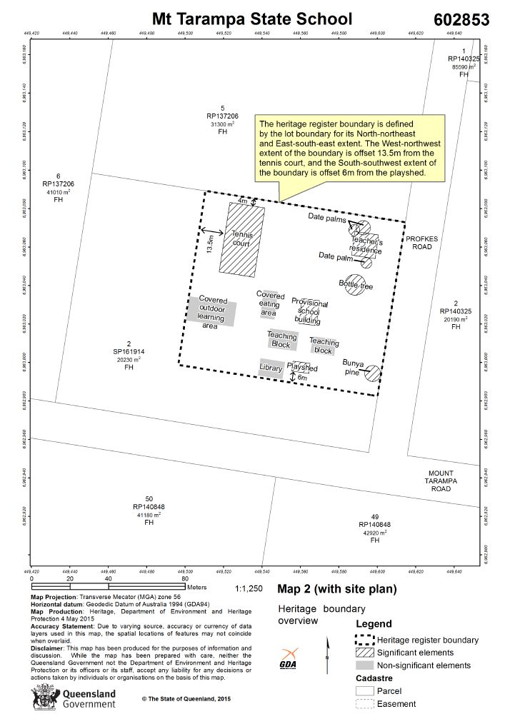 Mt Tarampa SS - boundary map 2 (2015)